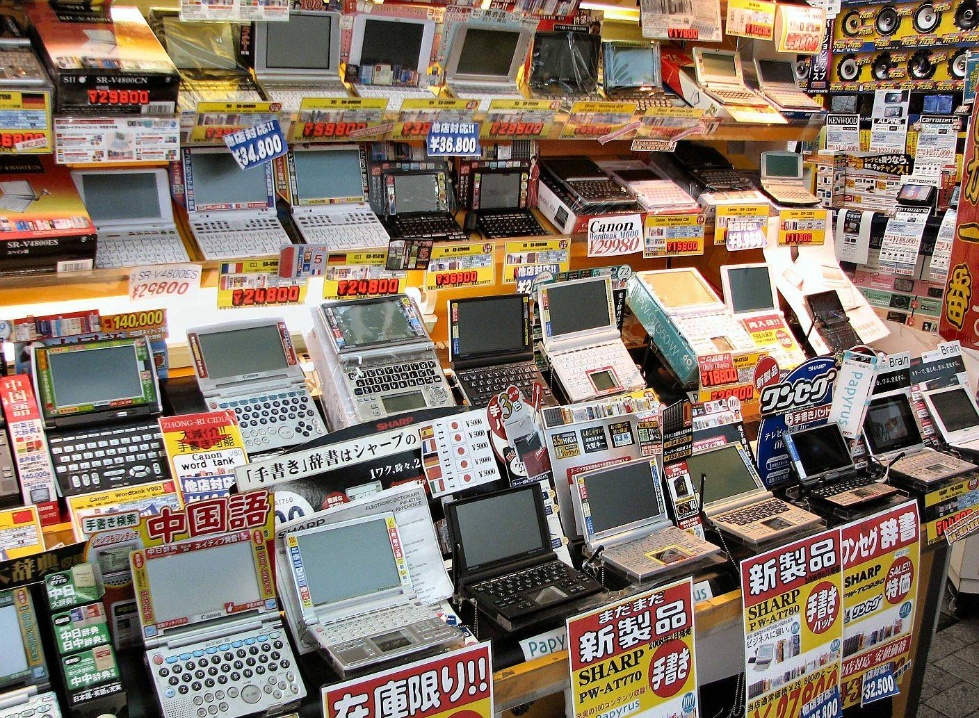 Gadgets in Akihabara, Tokyo (in this shop electronic dictionaries and reference books for the Japanese).